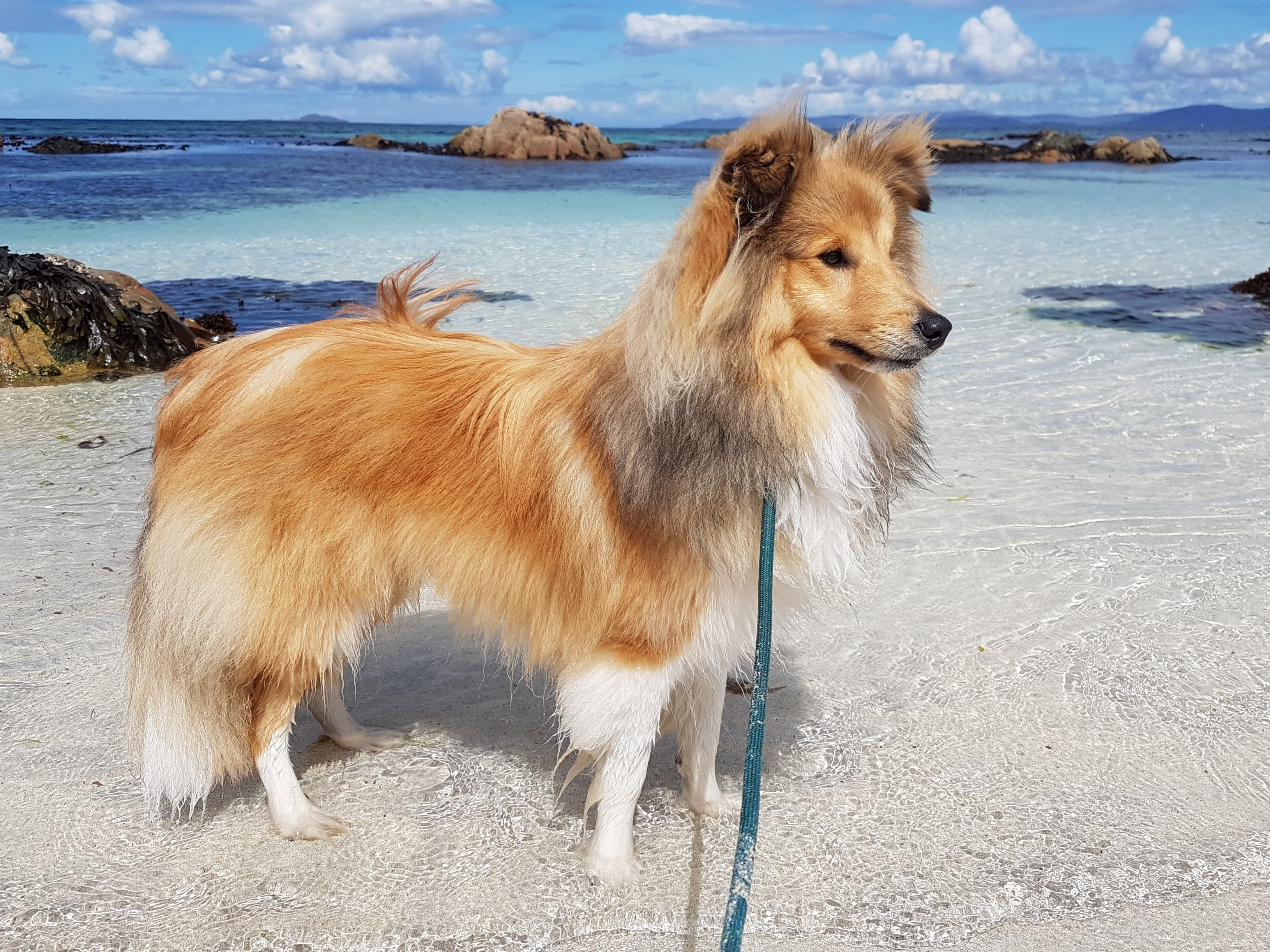 12mth old Sheltland Sheepdog on the Isle of Mull